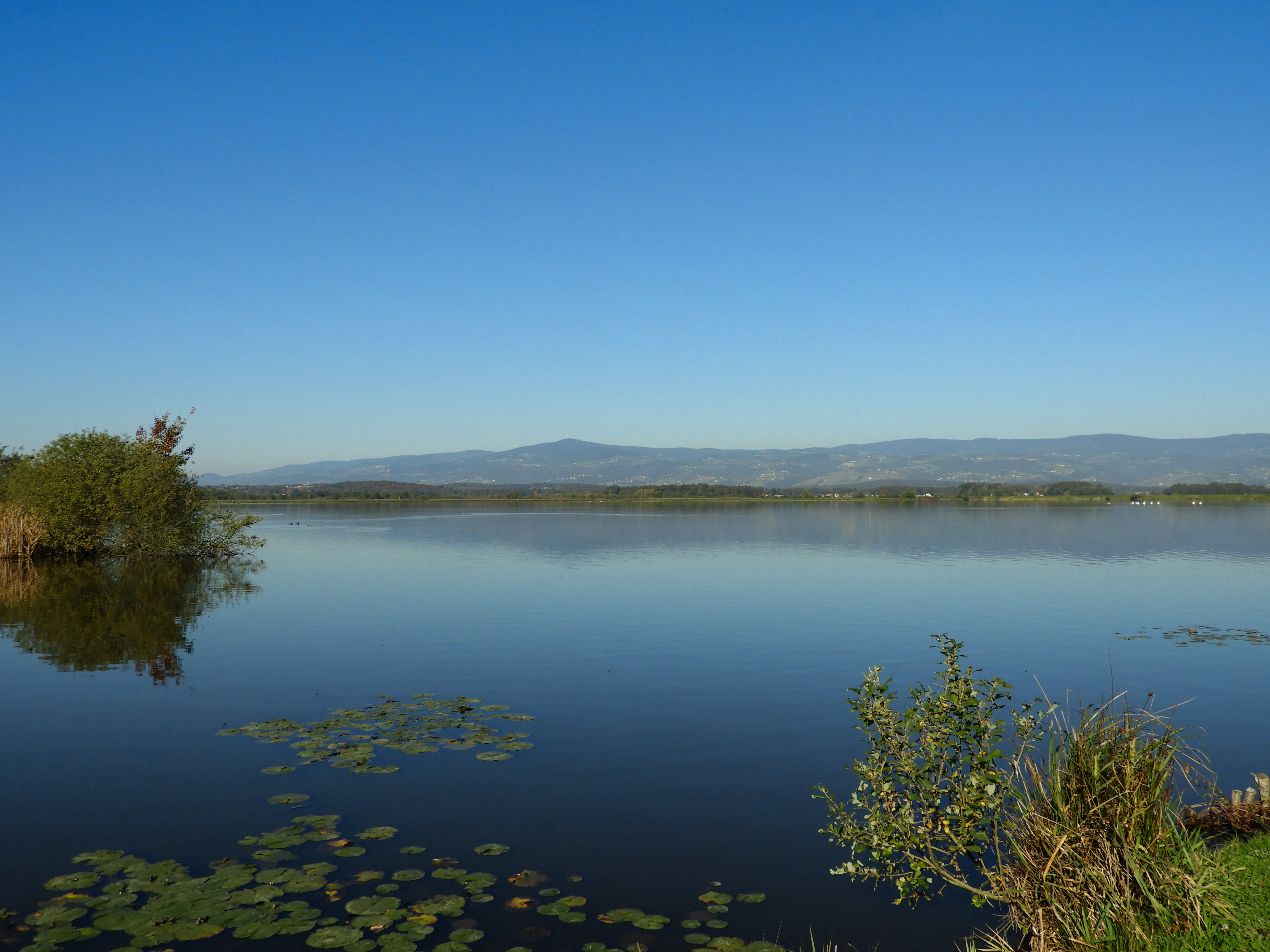 Sestrze Lake in the floodplain of Polskava River, Pohorje Mountains in the distance